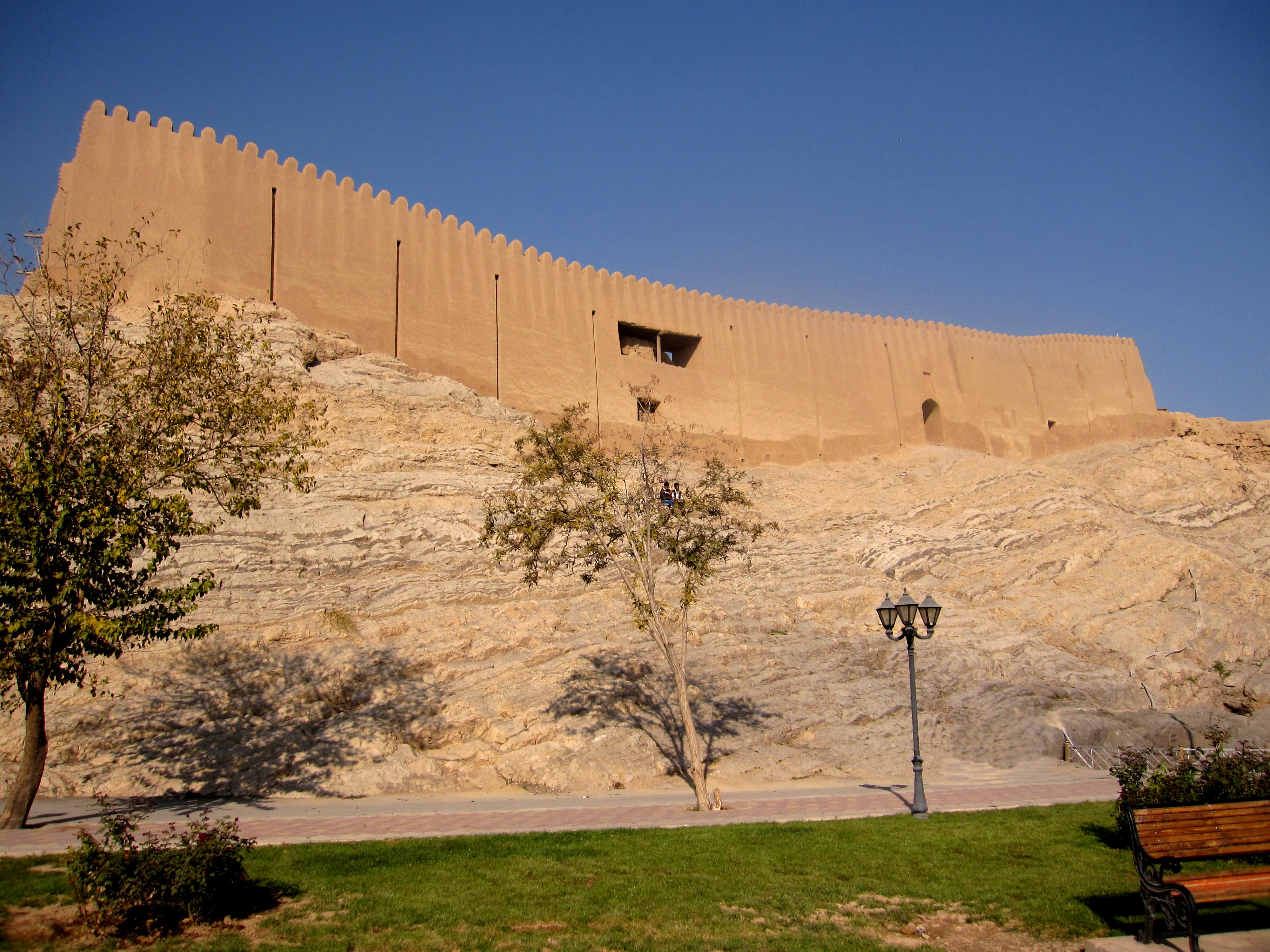 Iran - Tehran - Rey - Cheshmeh Ali (Ali Spring).